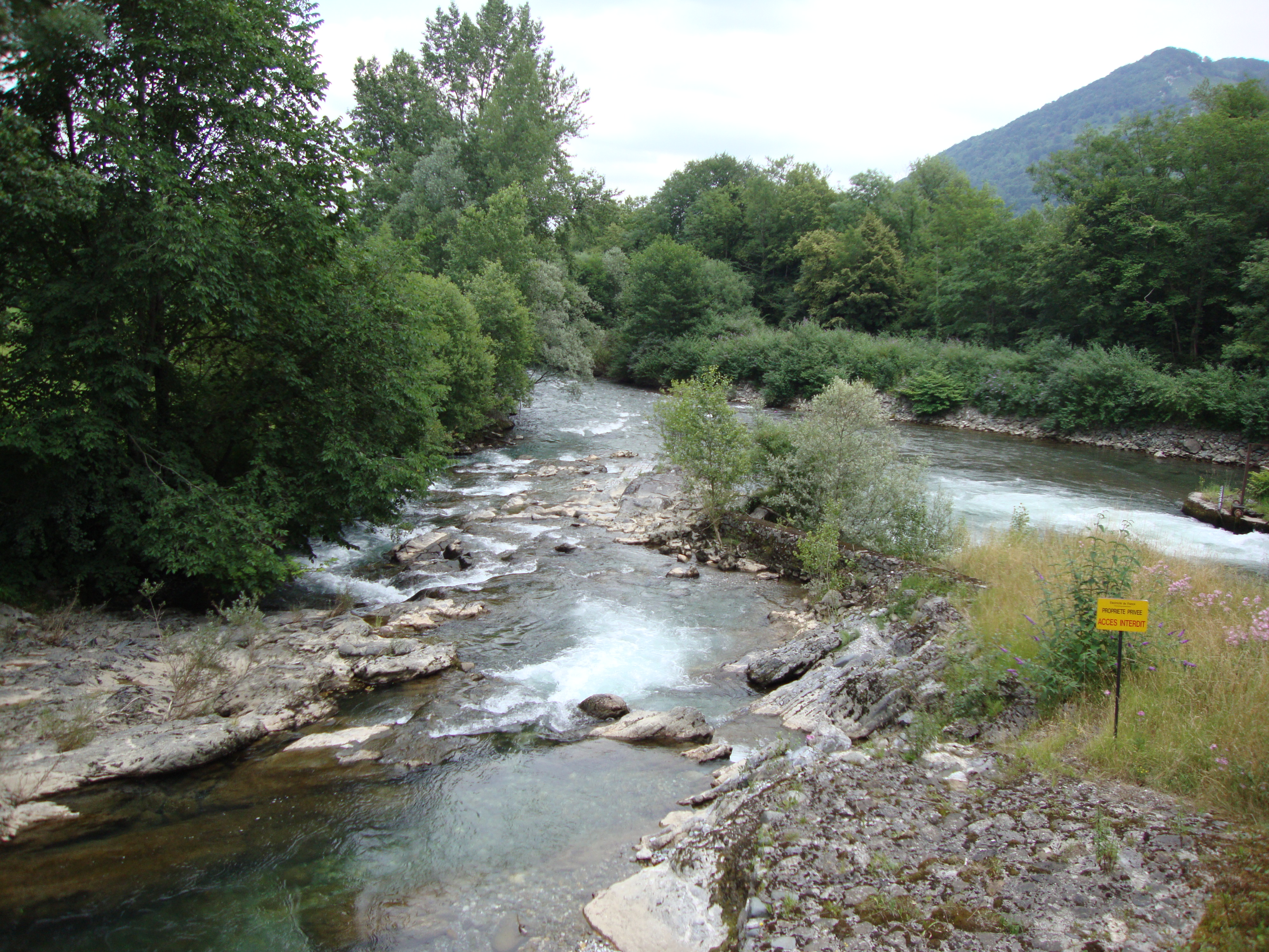 Asasp-Arros (Pyr-Atl, Fr) confluence Lourdios - Gave d'Aspe